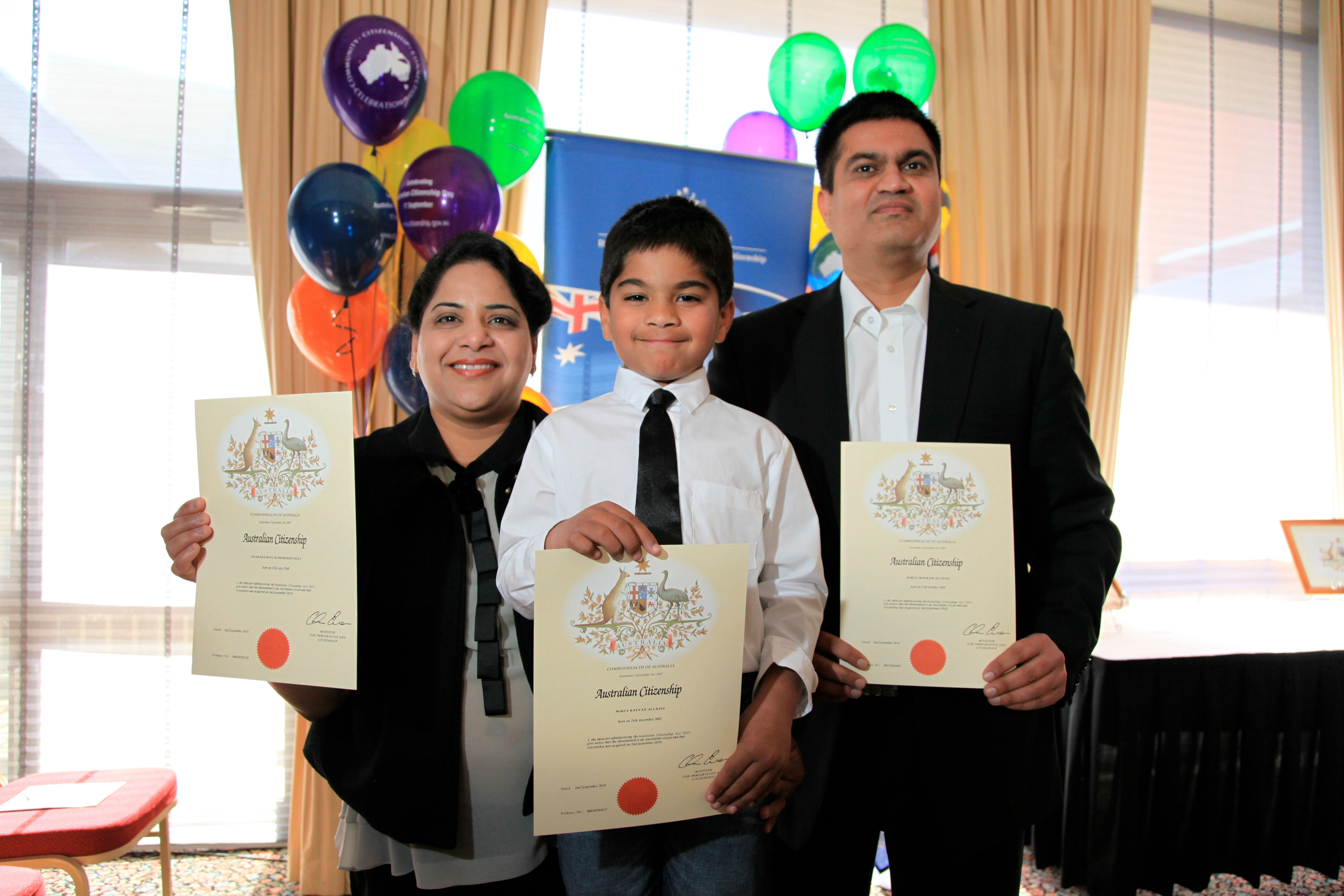 Citizenship 5